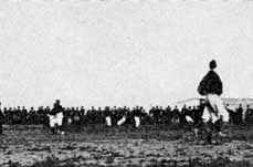 Camp de la carretera d'Horta: Home ground of FC Barcelona between 1905 and 1909